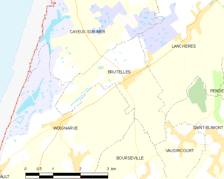 Map of French municipality Brutelles